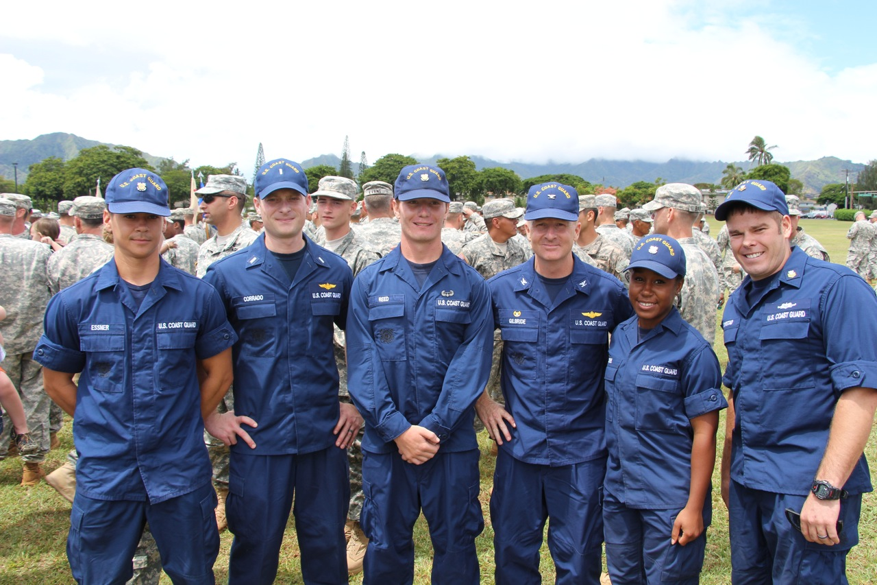 Seaman Cody Reed and members from his command at Air Station Barbers Point on graduation day.